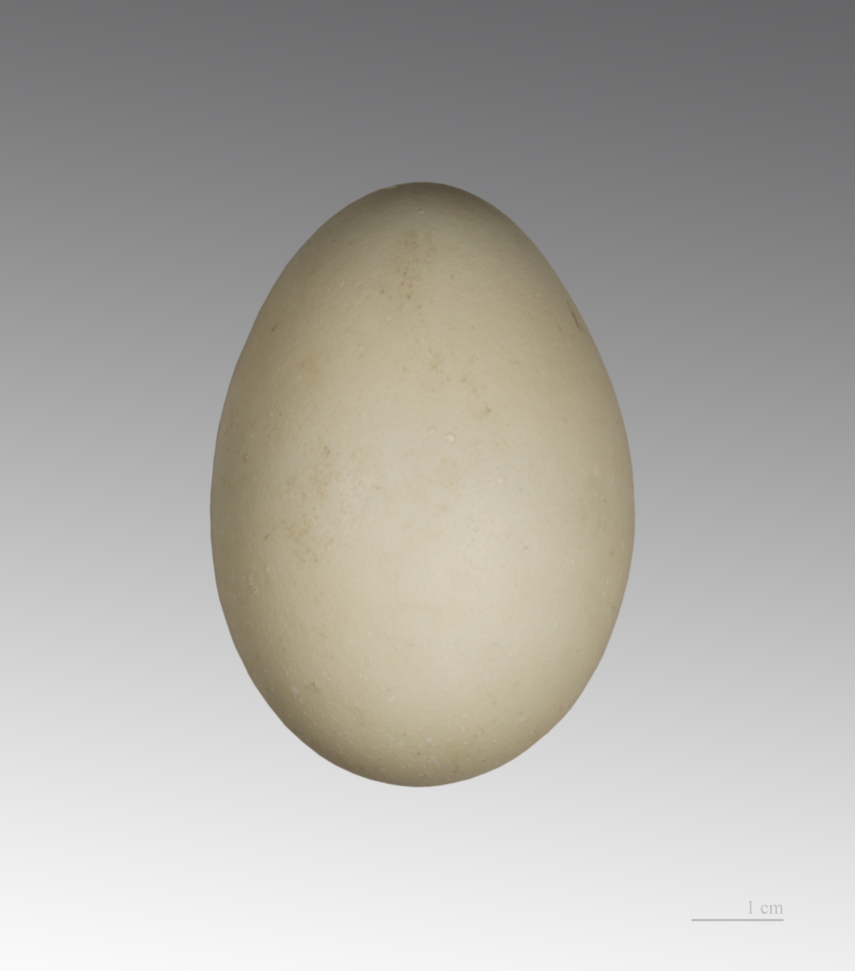 Egg of Brown Eared Pheasant. Collection of Jacques Perrin de Brichambaut. Locality: Jardin des Plantes Paris France